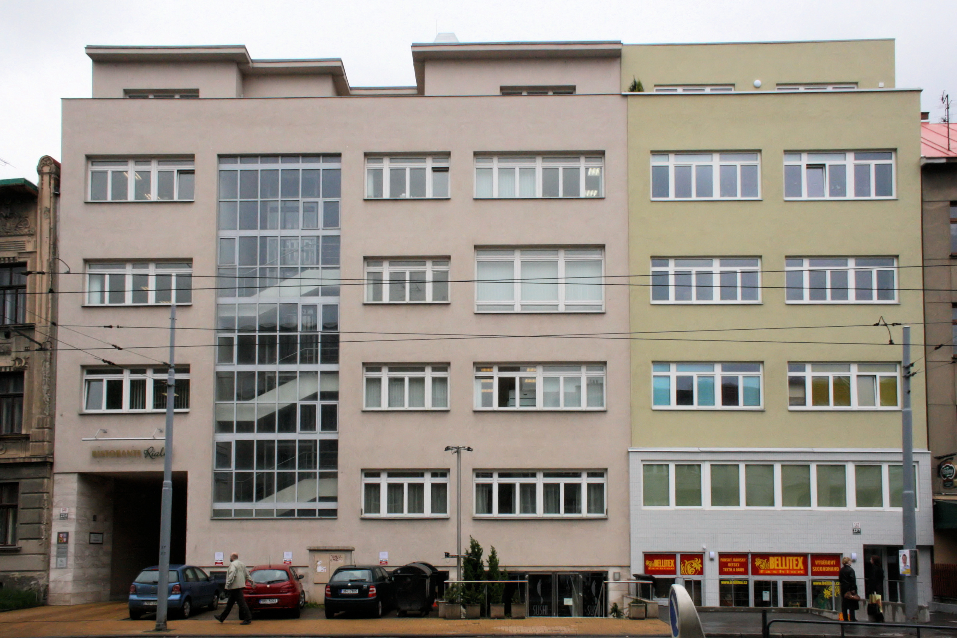 The Šilhan sanatorium at Veveří street 125&127, Brno, Czech Republic. Built in 1932 & 1935 by Jan Víšek.